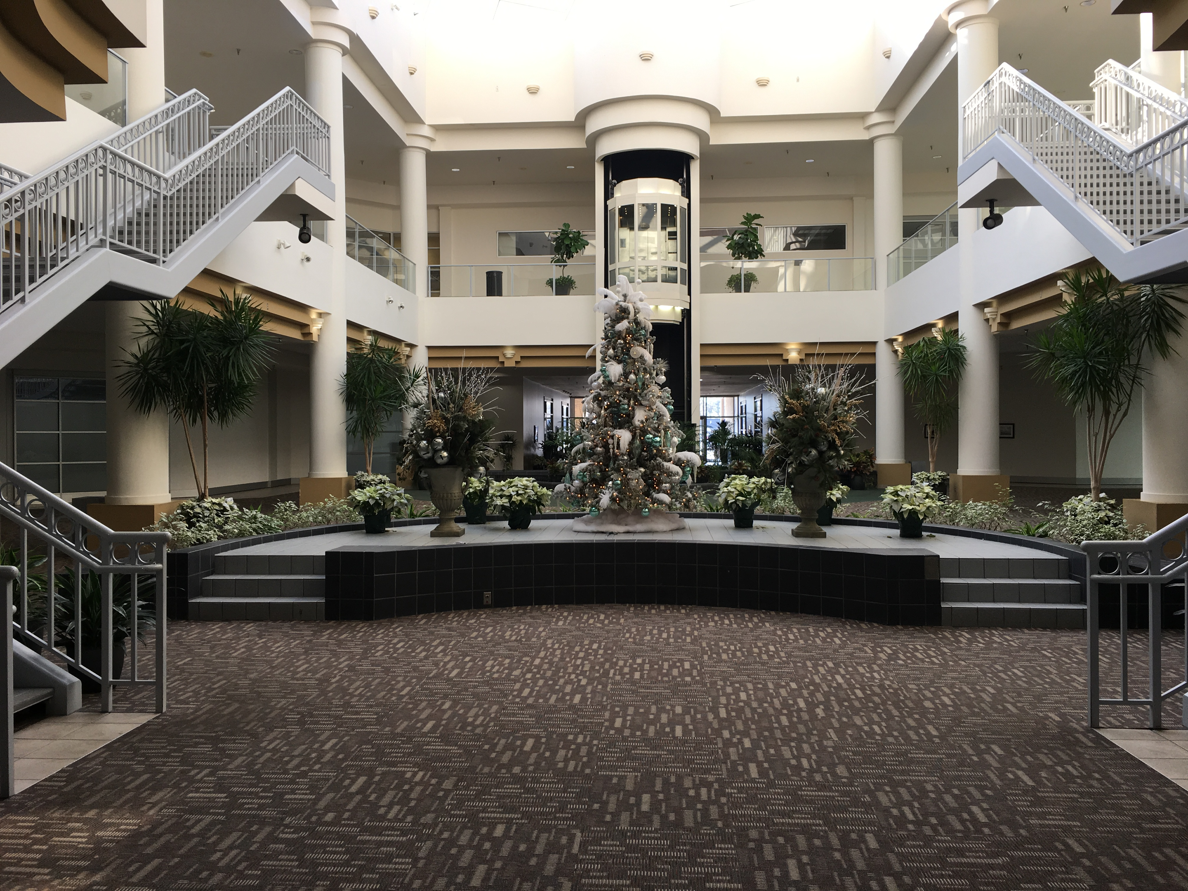 NetCenter in the center court in front of the elevator